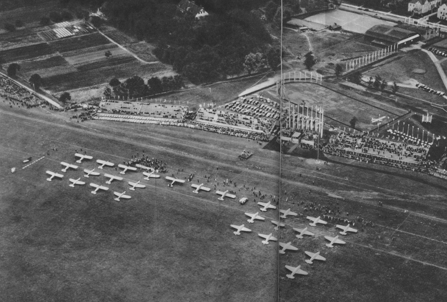 Opening ceremony of the FAI International Touring Aircraft Contest Challenge 1934 in Warsaw. On the left: Polish team (high-wing RWD-9 and low-wing PZL.26 aircraft), in the middle: Chechoslovak team (one RWD-9 and two low-wing Aero A.200), on the right - German team (Bf 108, Klemm Kl 36, Fieseler Fi 97). The Italian time had not arrived yet.